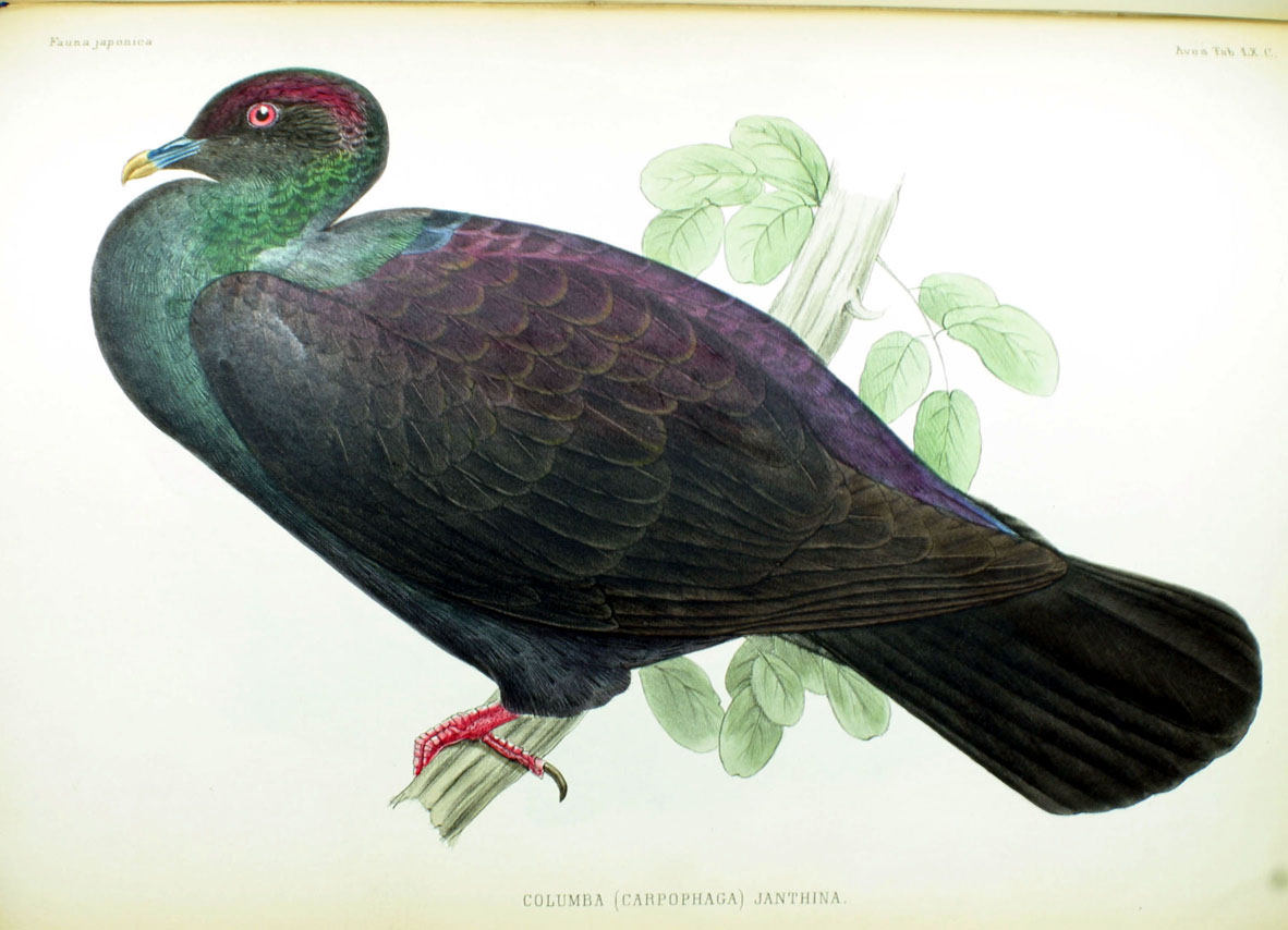 An illustration of a Japanese Wood Pigeon (Columba (Carpophaga) janthina) from Fauna Japonica